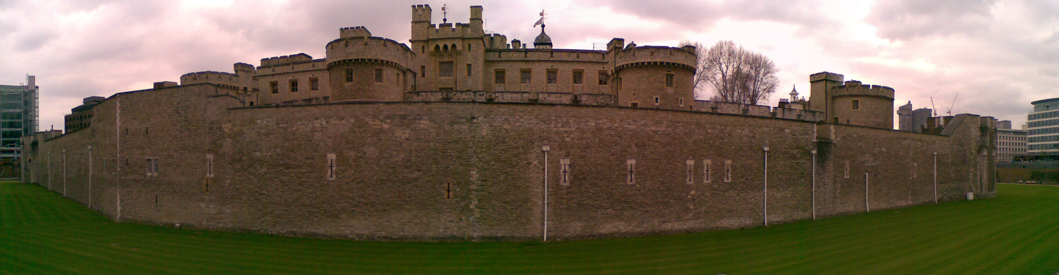 A panoramic view about The Tower Of London, in UK.